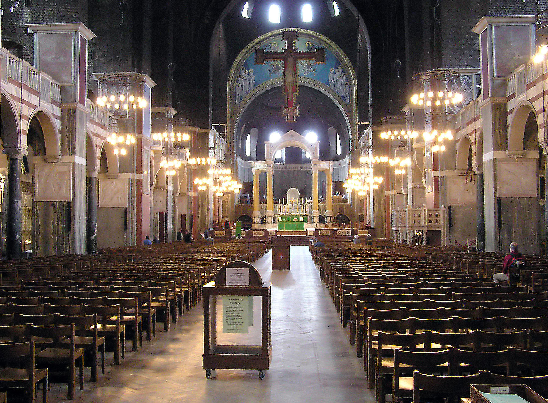 Interior of Westminster Cathedral, London, England. Photographed by Adrian Pingstone in June 2005 and placed in the public domain.